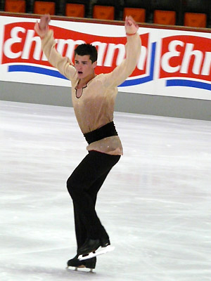 Joey Russell during his free skate at the 2007 Nebelhorn Trophy.